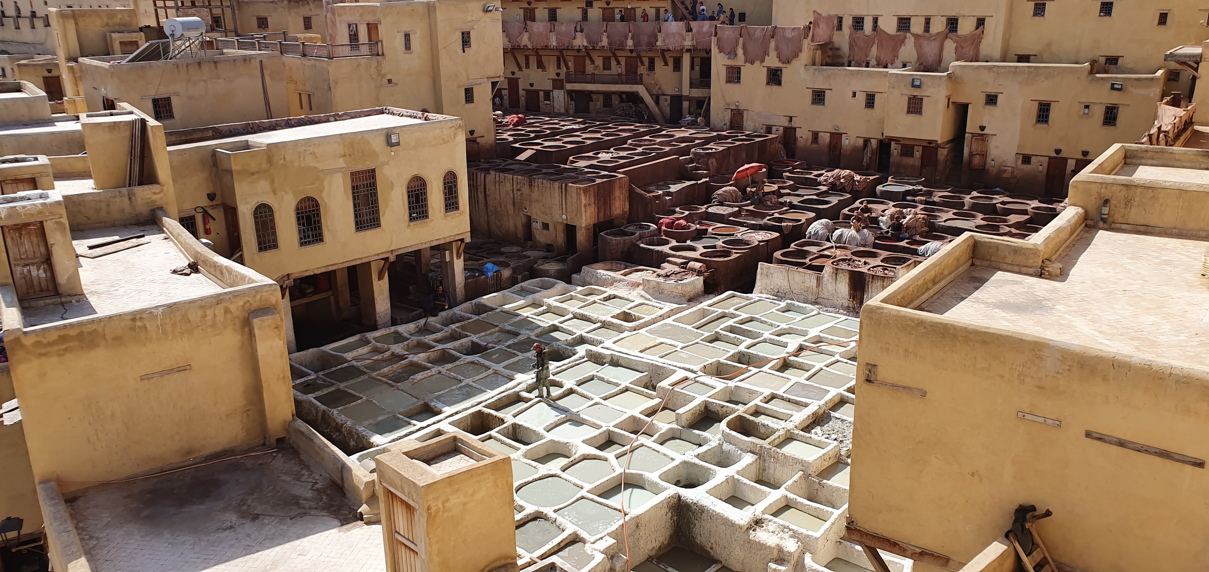 Tanneries of Fez, Fes el Bali